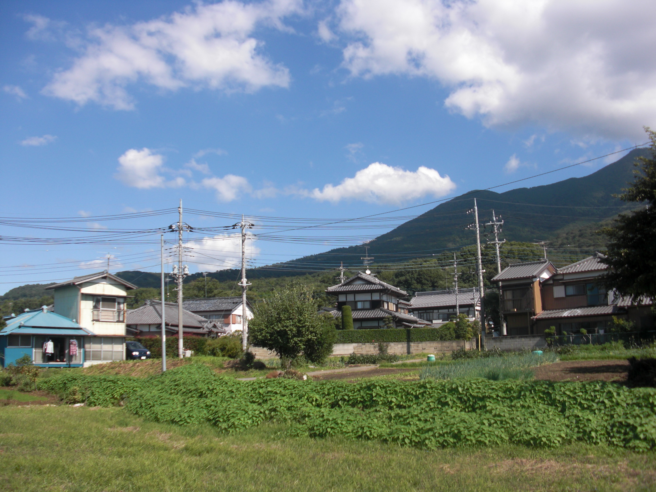 This is a landscape of Kamioshima, Tsukuba city, Ibaraki prefecture, Japan.